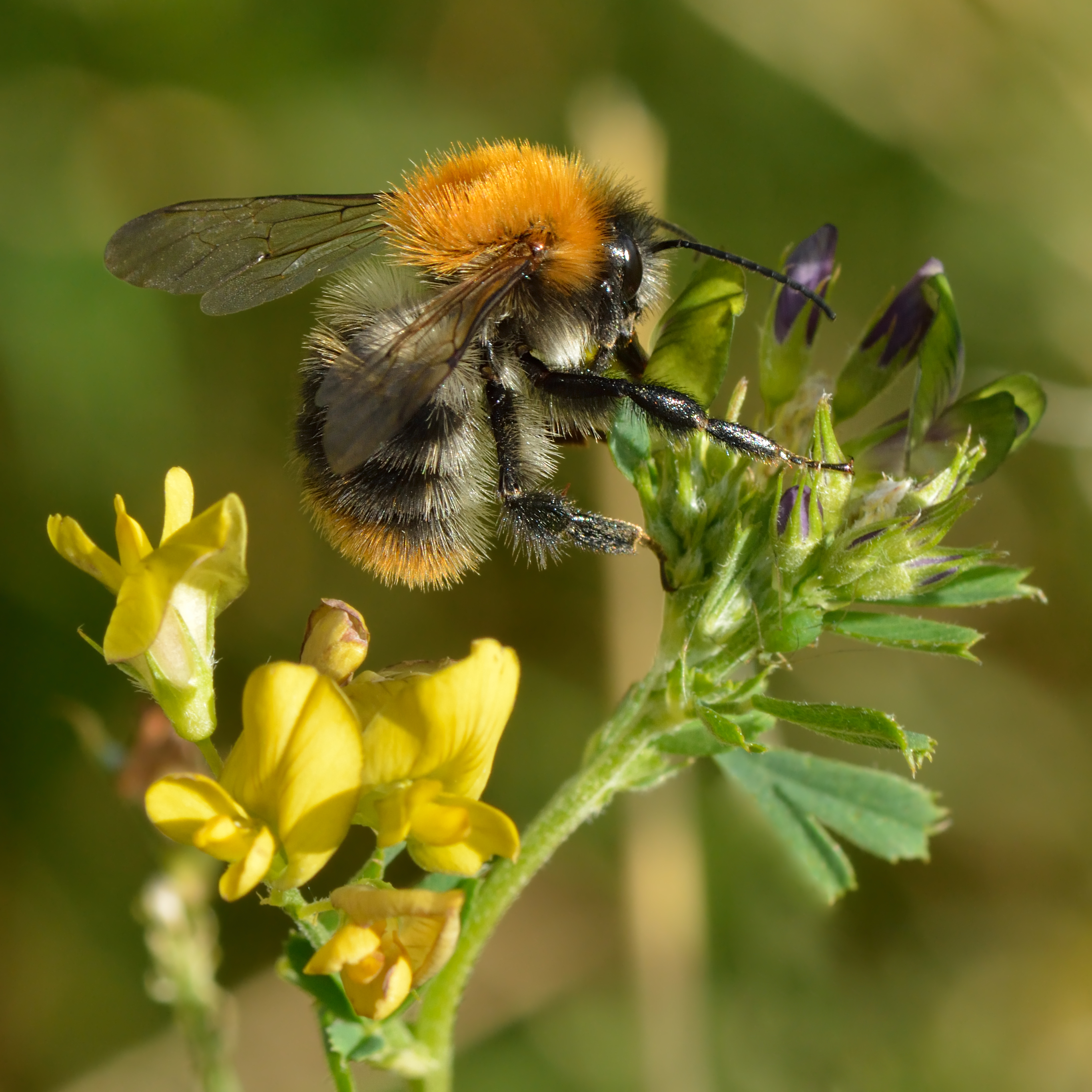 Male common carder bee (Bombus pascuorum) on the hybrid alfalfa (Medicago x varia). Keila, Northwestern Estonia.